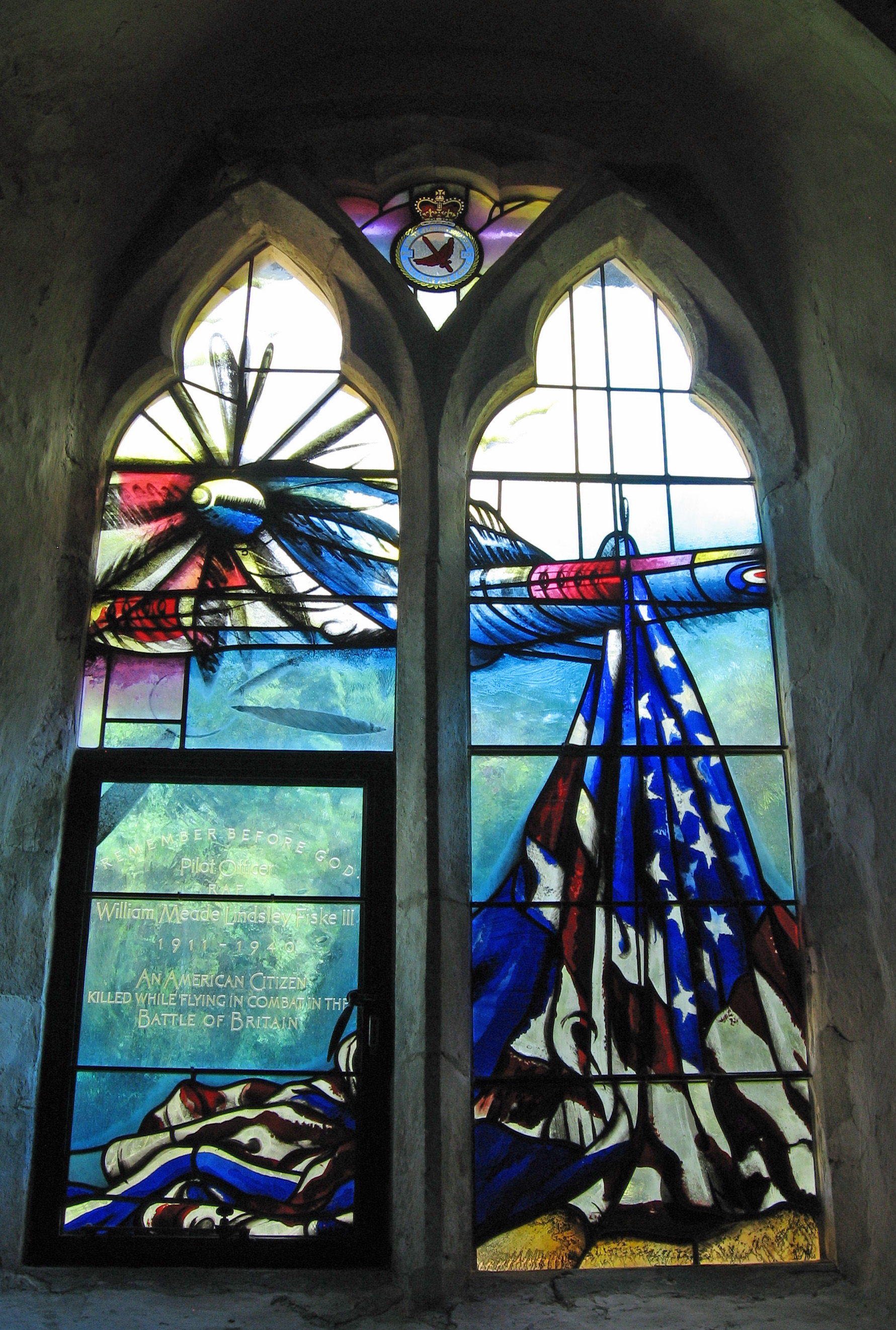 William Meade Lindsley "Billy" Fiske III Stain Glass Window